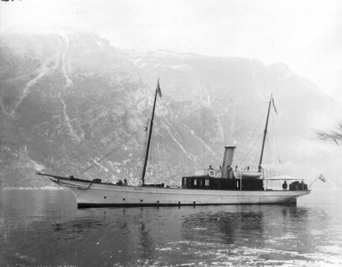 DS Ulvik, earlier the british yacht Santa Rita , in Eidfjord.